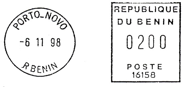 Meter stamp catalog image, Benin type B5